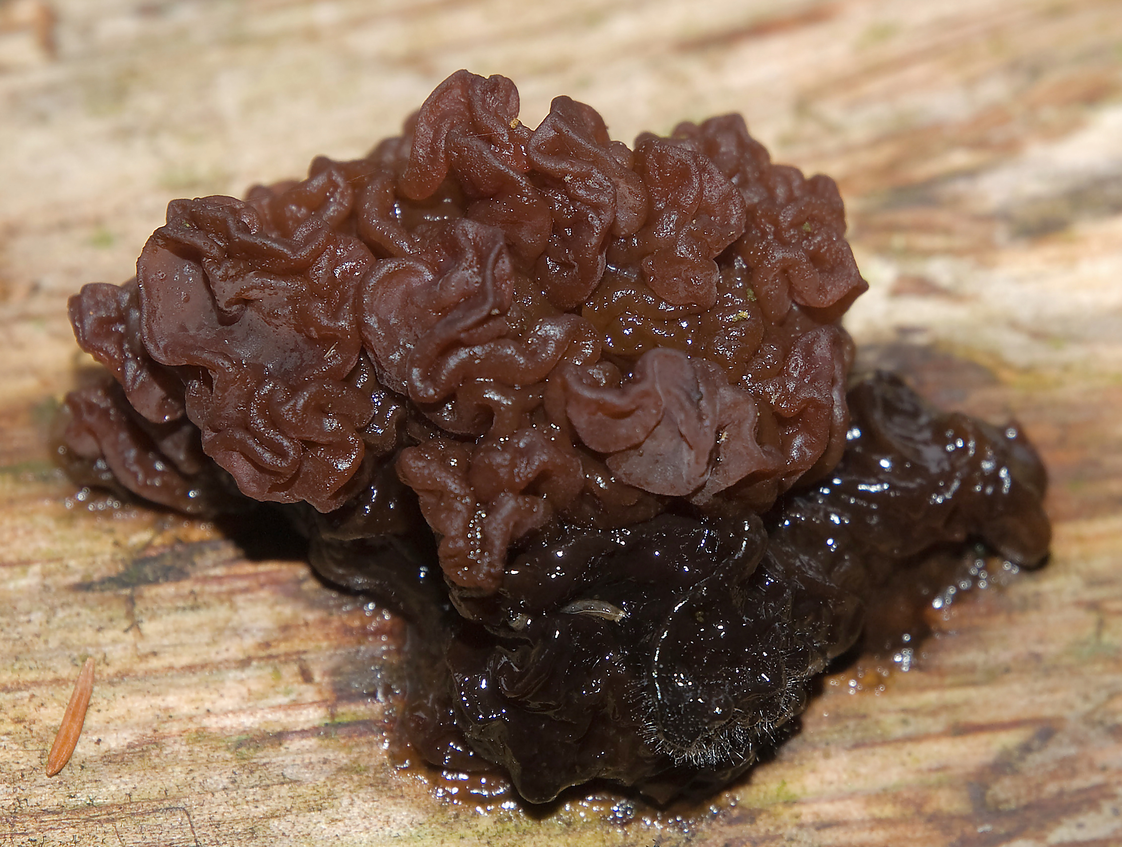 Trugzitterpilz Ascotremella faginea; Picture taken near the river Regen, near Viechtach, Bavaria